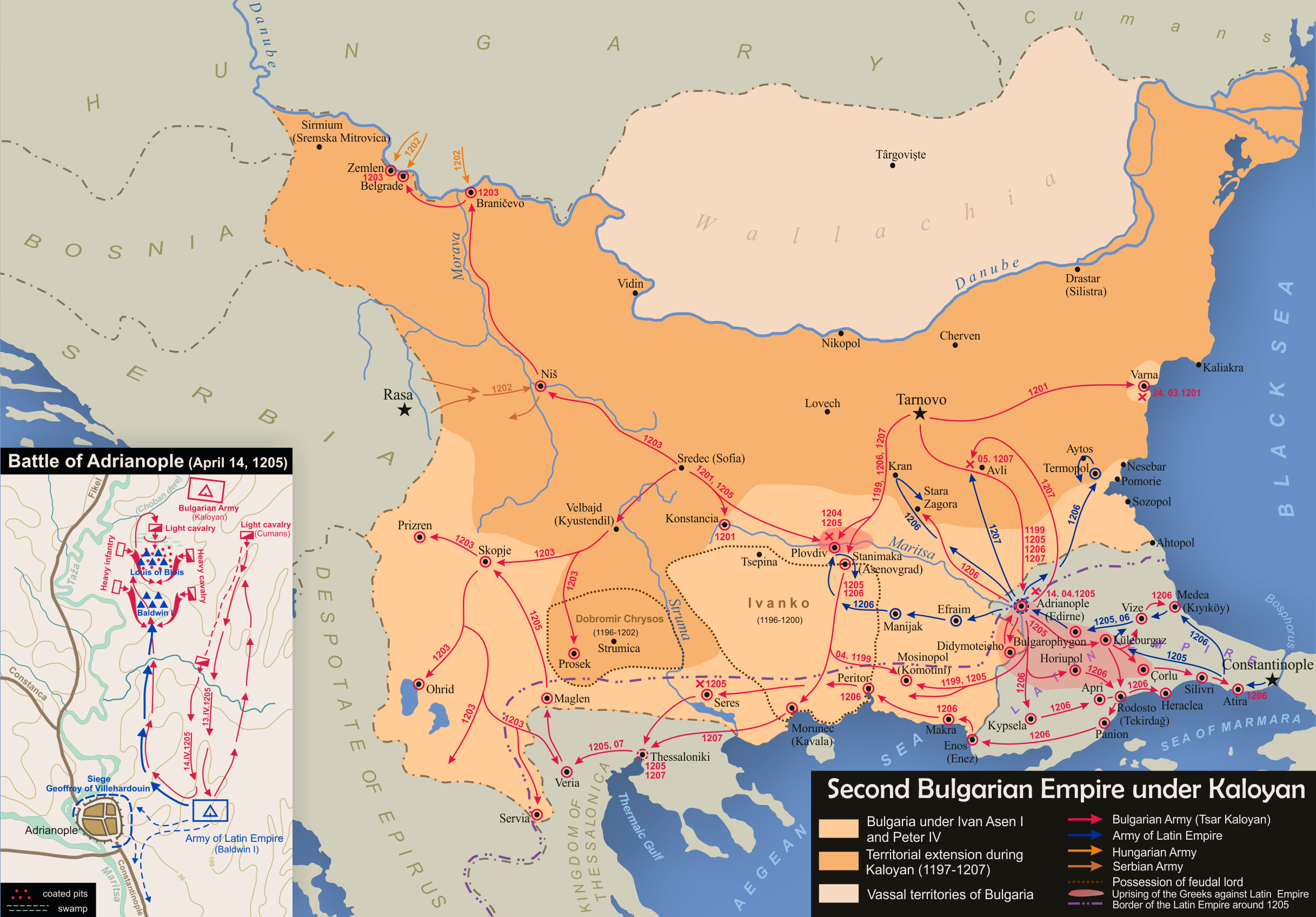 Bulgaria under Kaloyan (1197-1207)